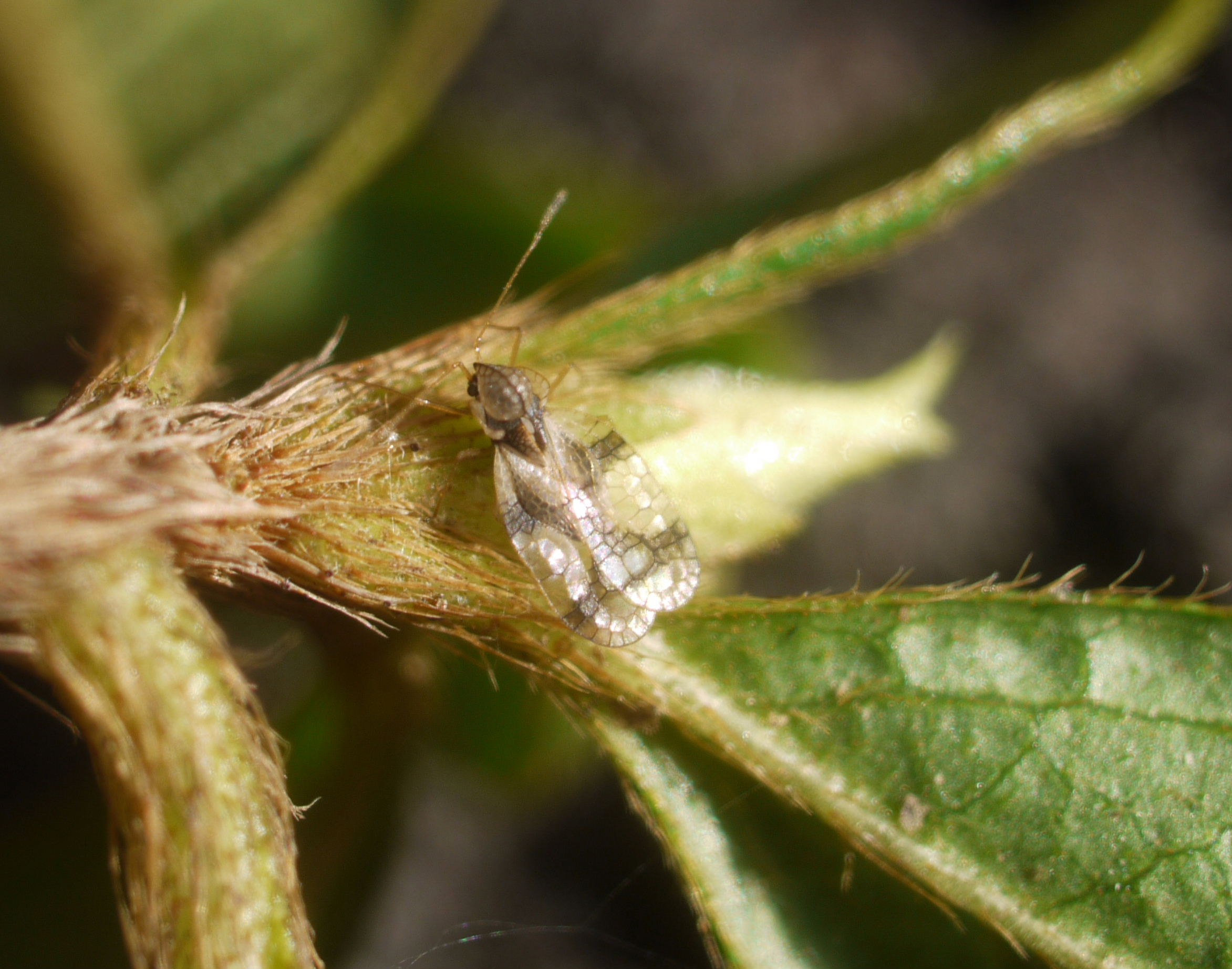 Stephanitis pyruoides (Tingidae) Japanese name: tutujigunbai ：ツツジグンバイ Date; 2010-o1-30; Tanabe City, Wakayama prefecture, Japan Author; Keisotyo